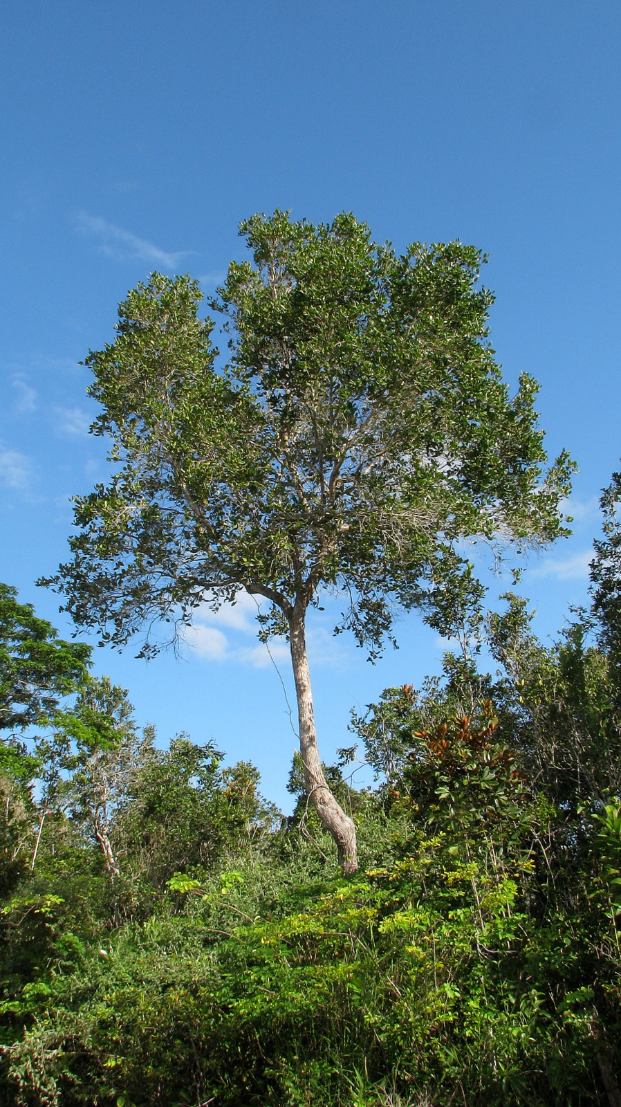 Chaetocarpus echinocarpus in Entre Rios, Bahia, Brazil